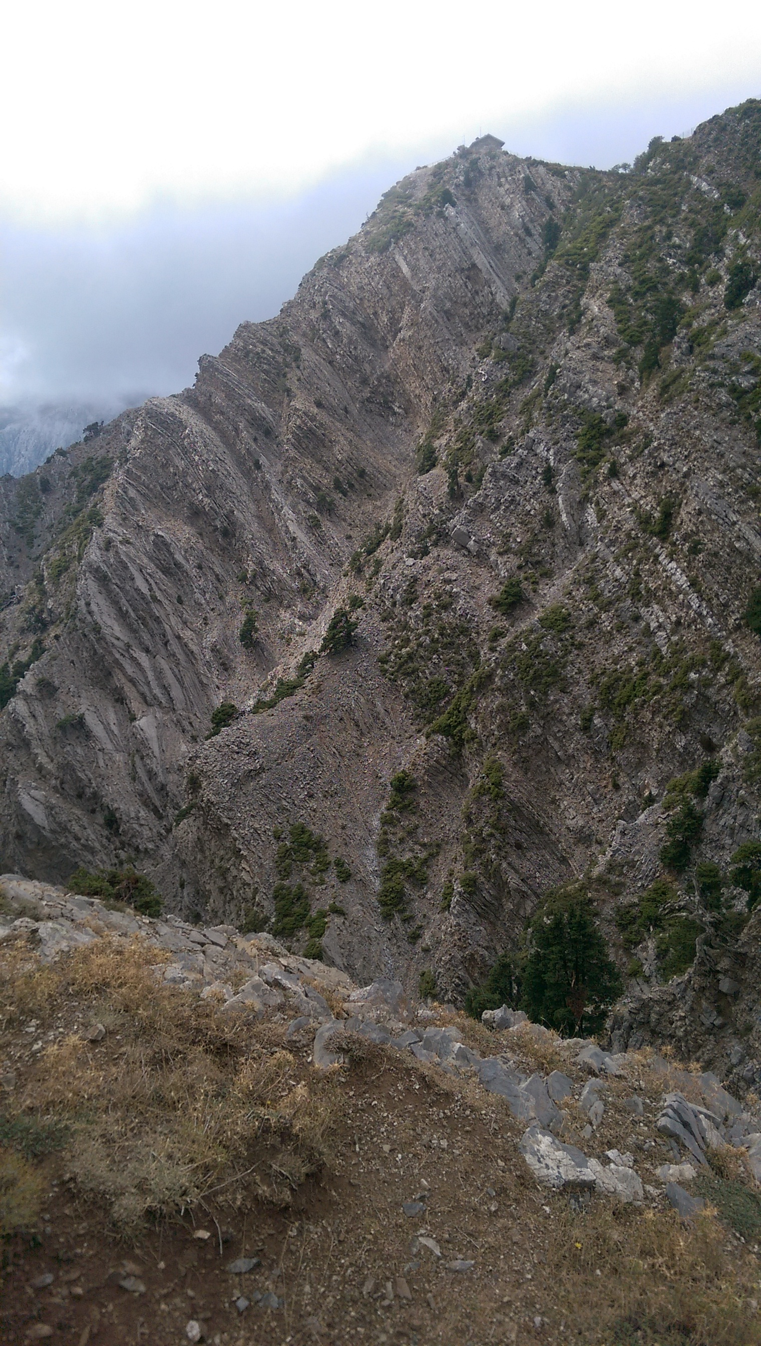 Kallergi Refuge 2015